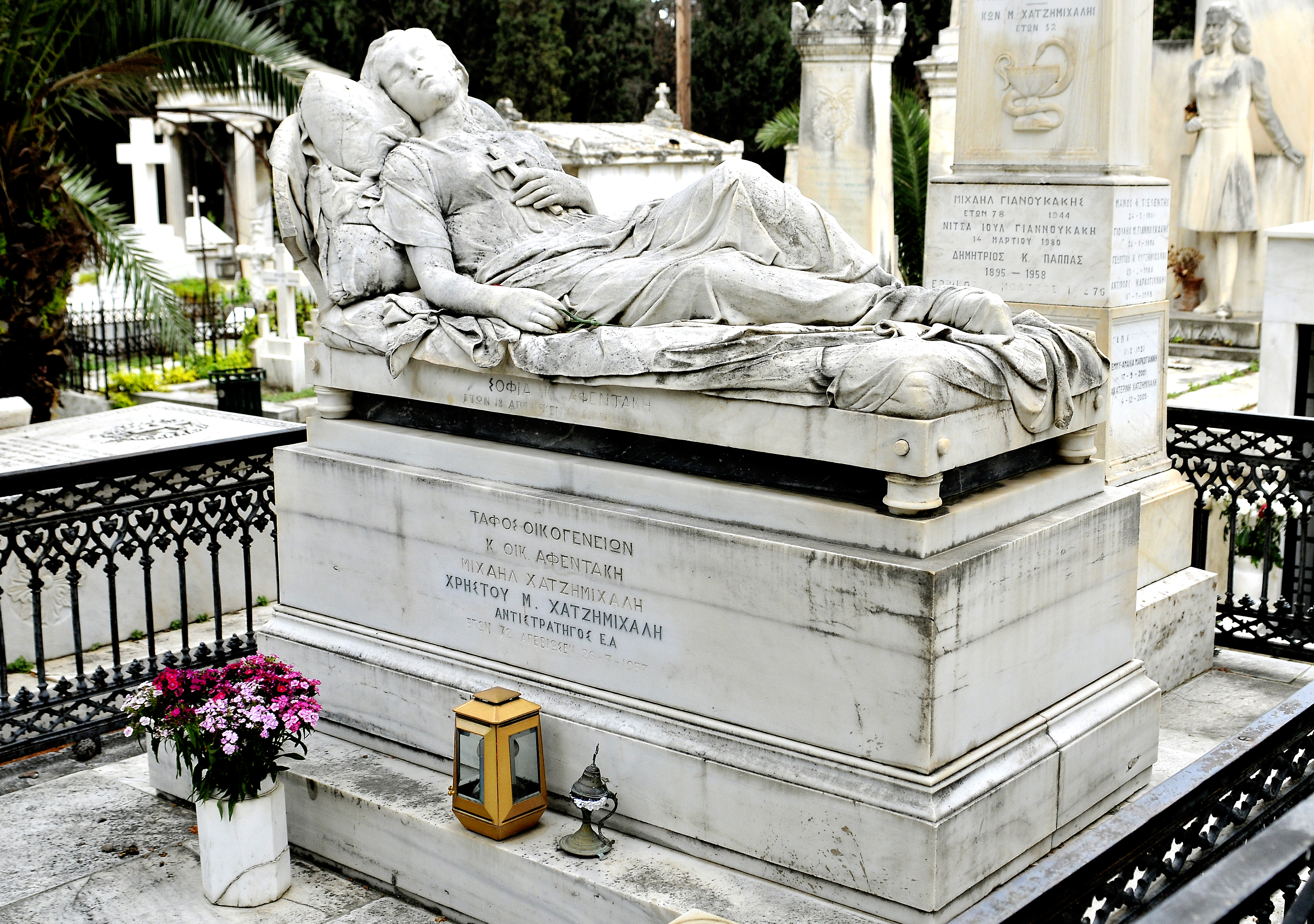 Tomb of Sofia Afentaki at the First Cemetery. Athens, Attica, Greece